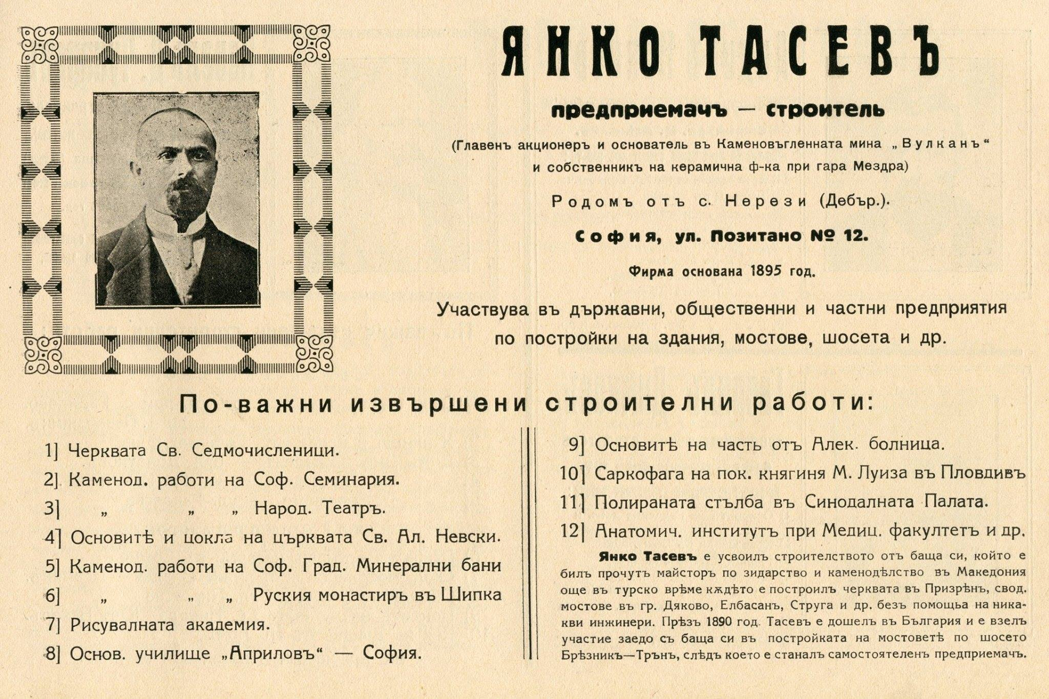 Yanko Tasev Advertisment